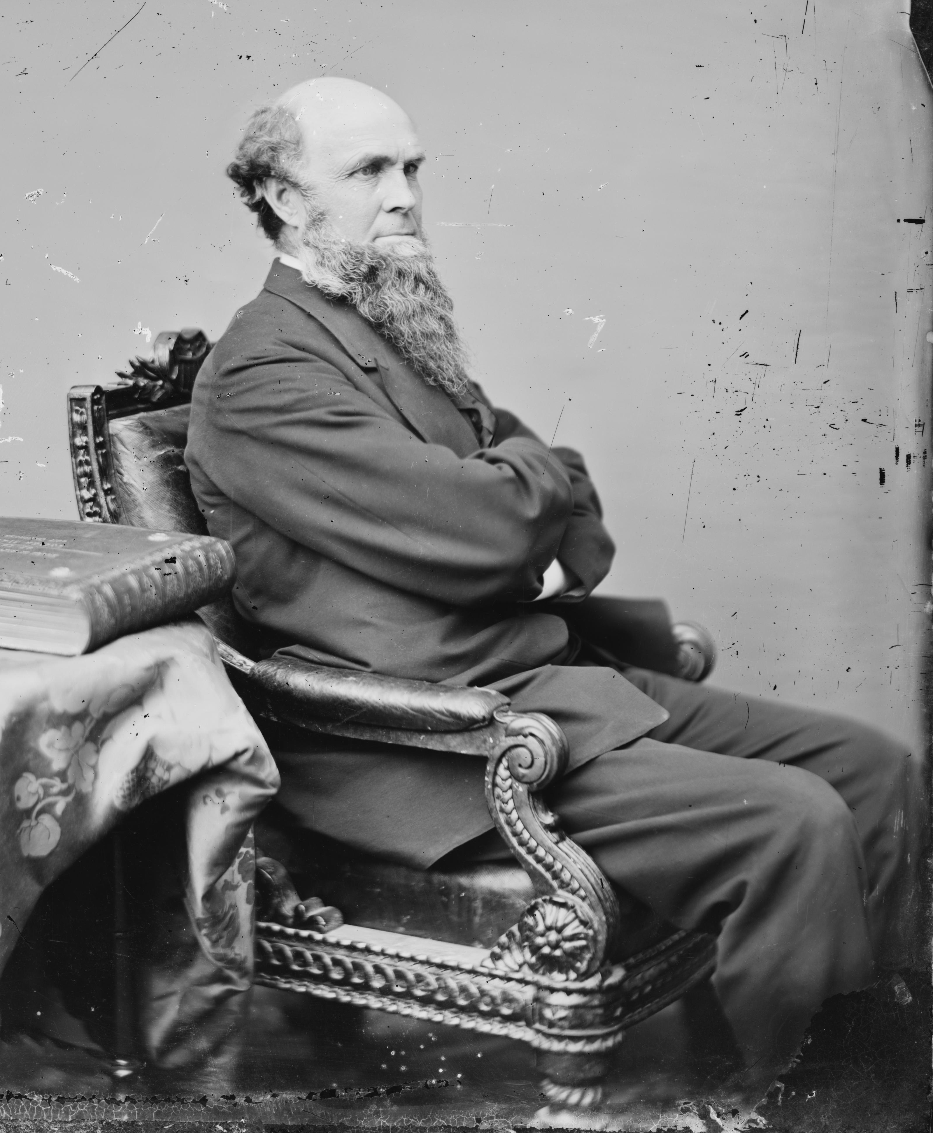 John F. Farnsworth. Library of Congress description: "Hon. John Franklin Farnsworth of Ill."